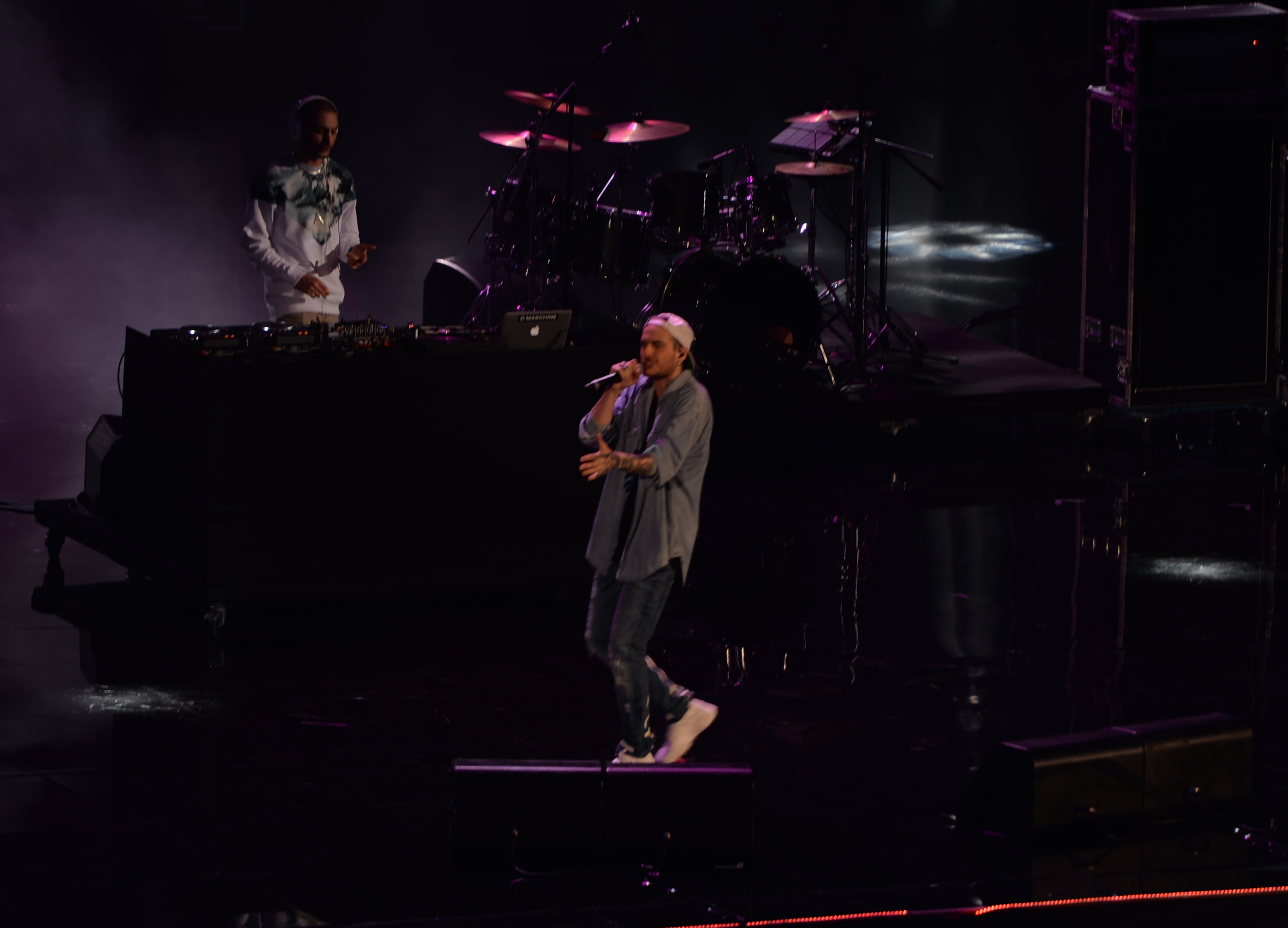 Gemitaiz during the Wind Music Awards 2016 ceremony at Verona Arena